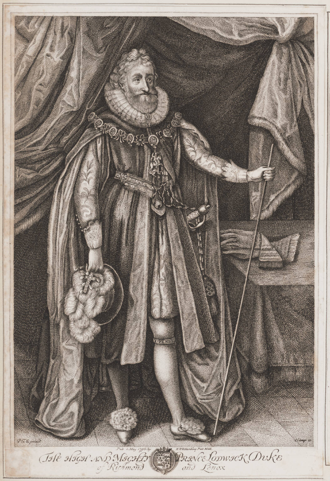 Ludovic Stewart, 2nd Duke of Lennox (1574-1624)